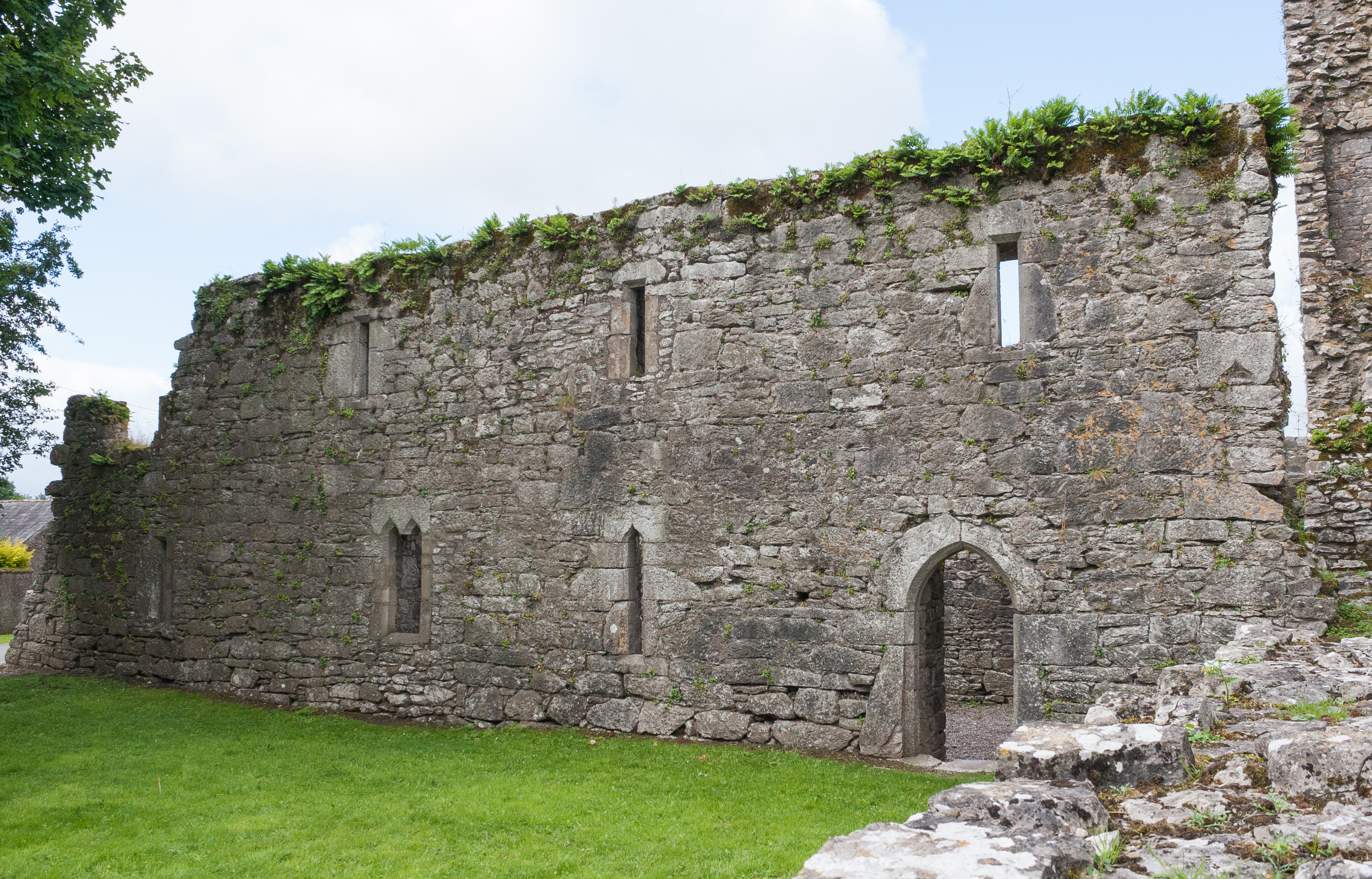 East wing with the dormitory, as seen from the choir.